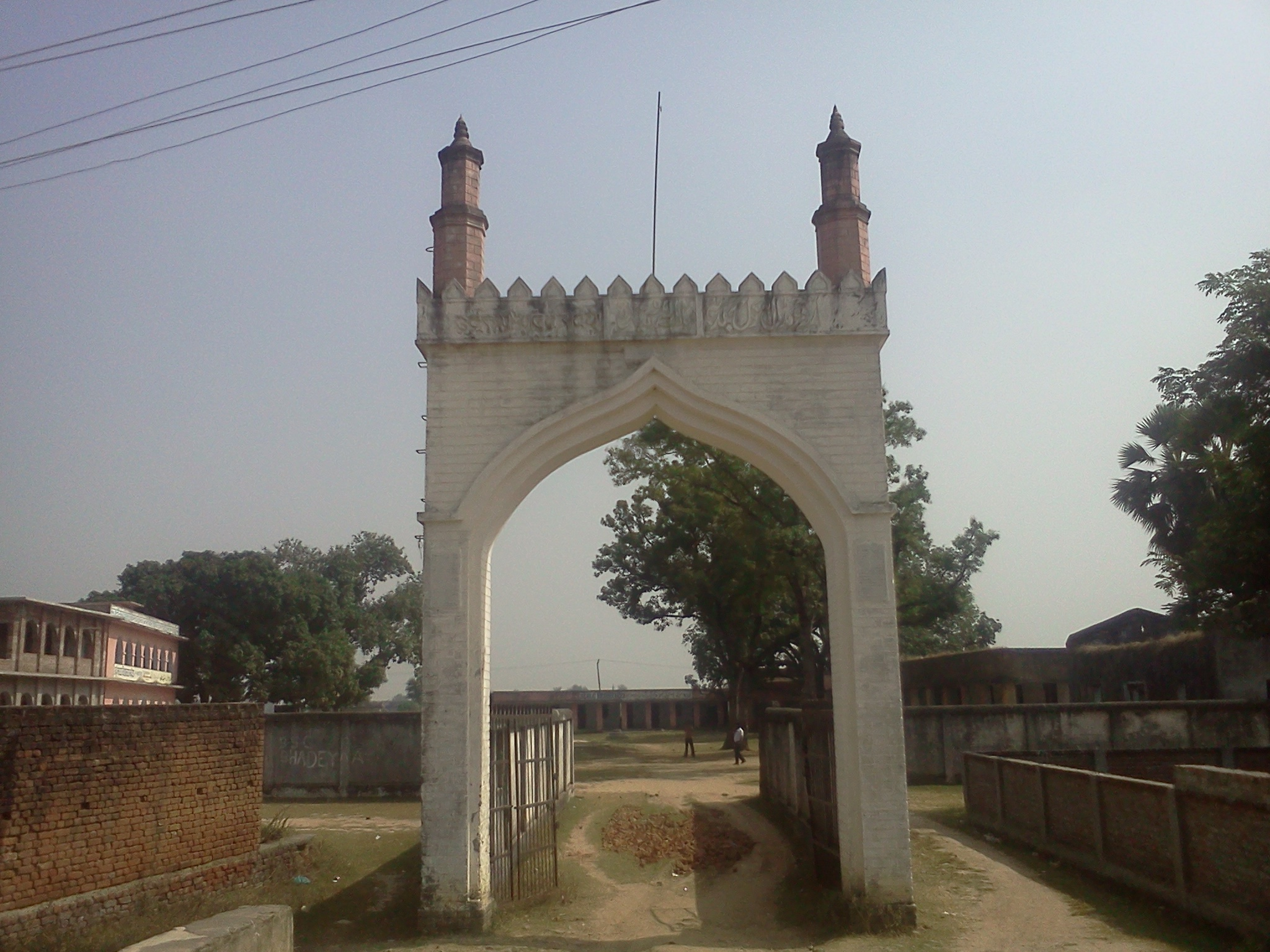 Urdu middil school bhadeya founded in 1905 this gate is called bab ul rubaida